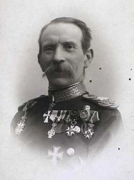 Abraham Louis le Maire (1836-1913), Danish Major General and cartographer